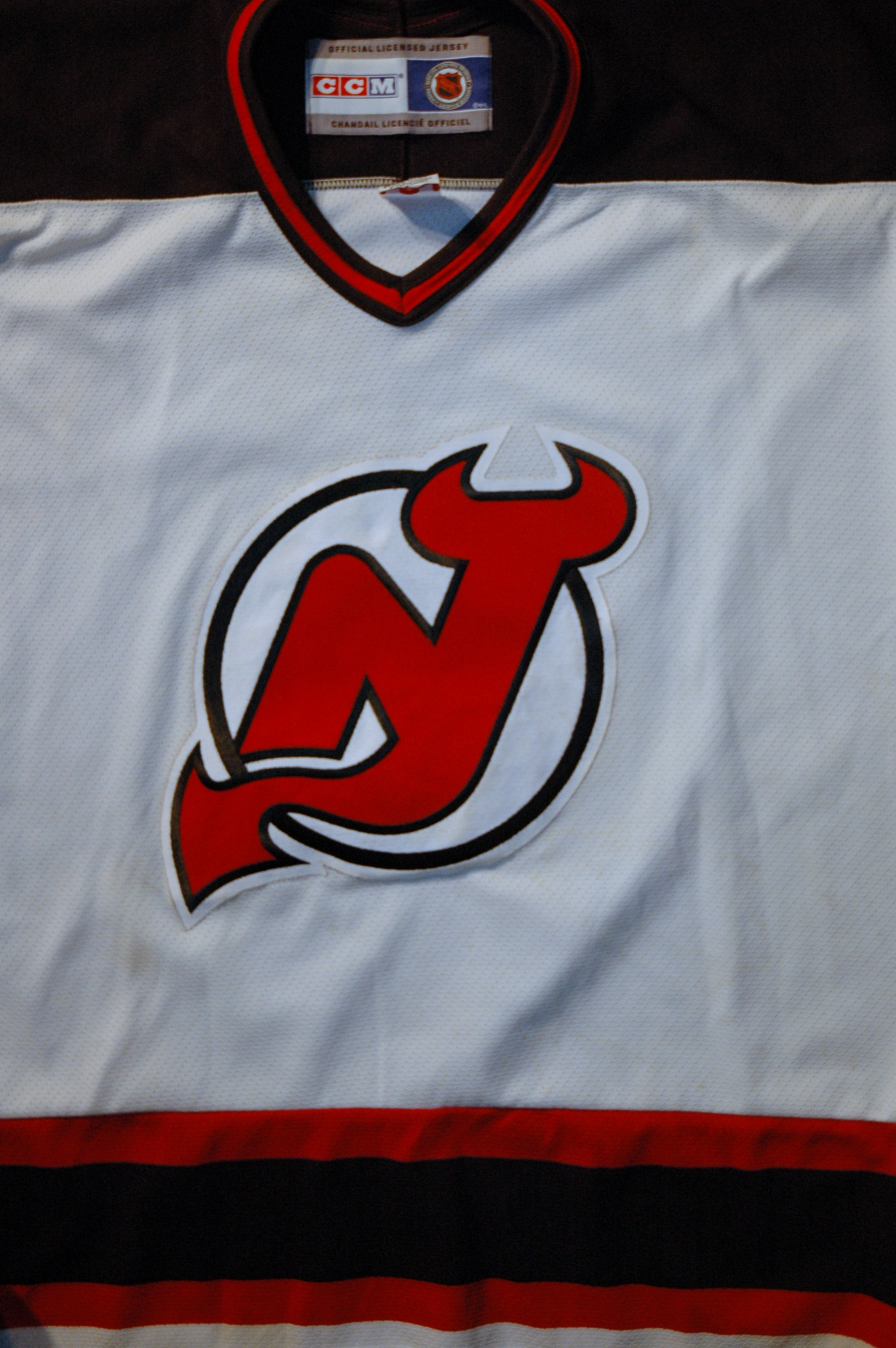 New Jersey Devils uniform